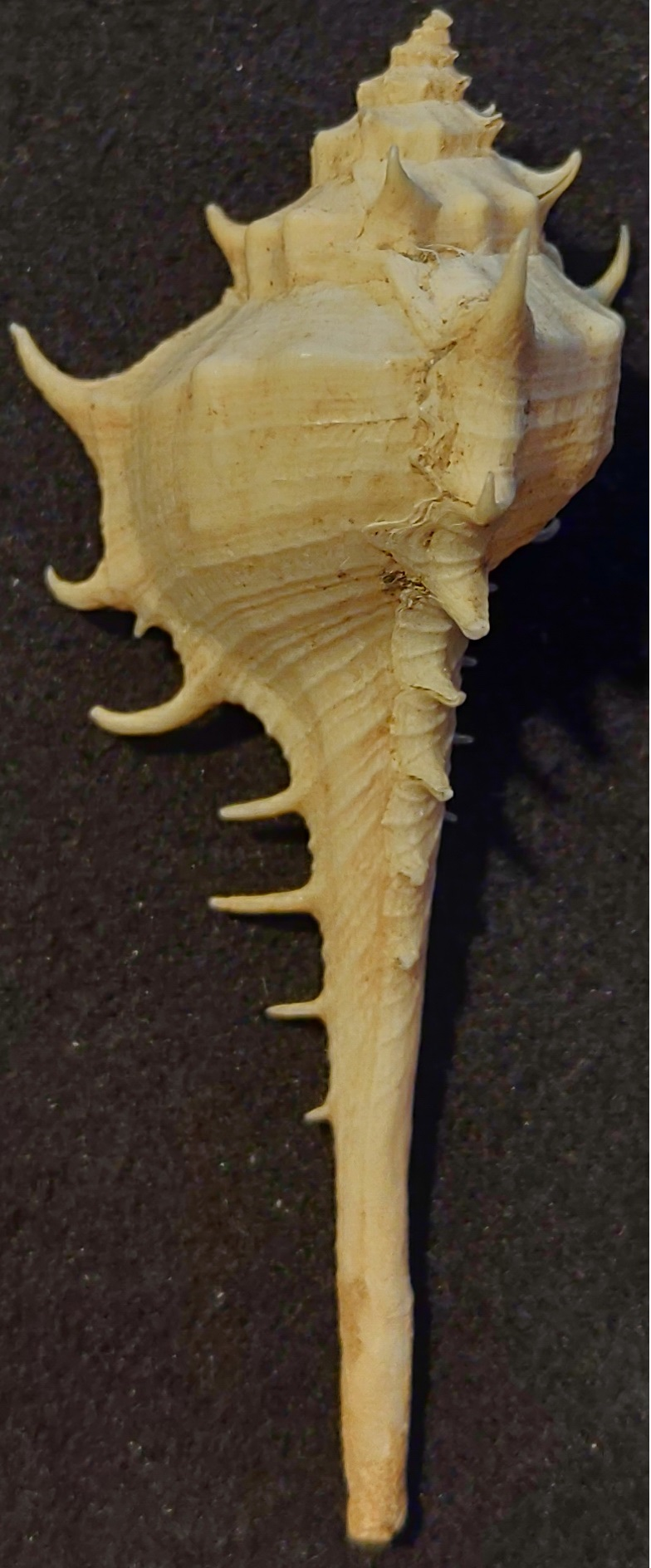 Murex Occa Back.